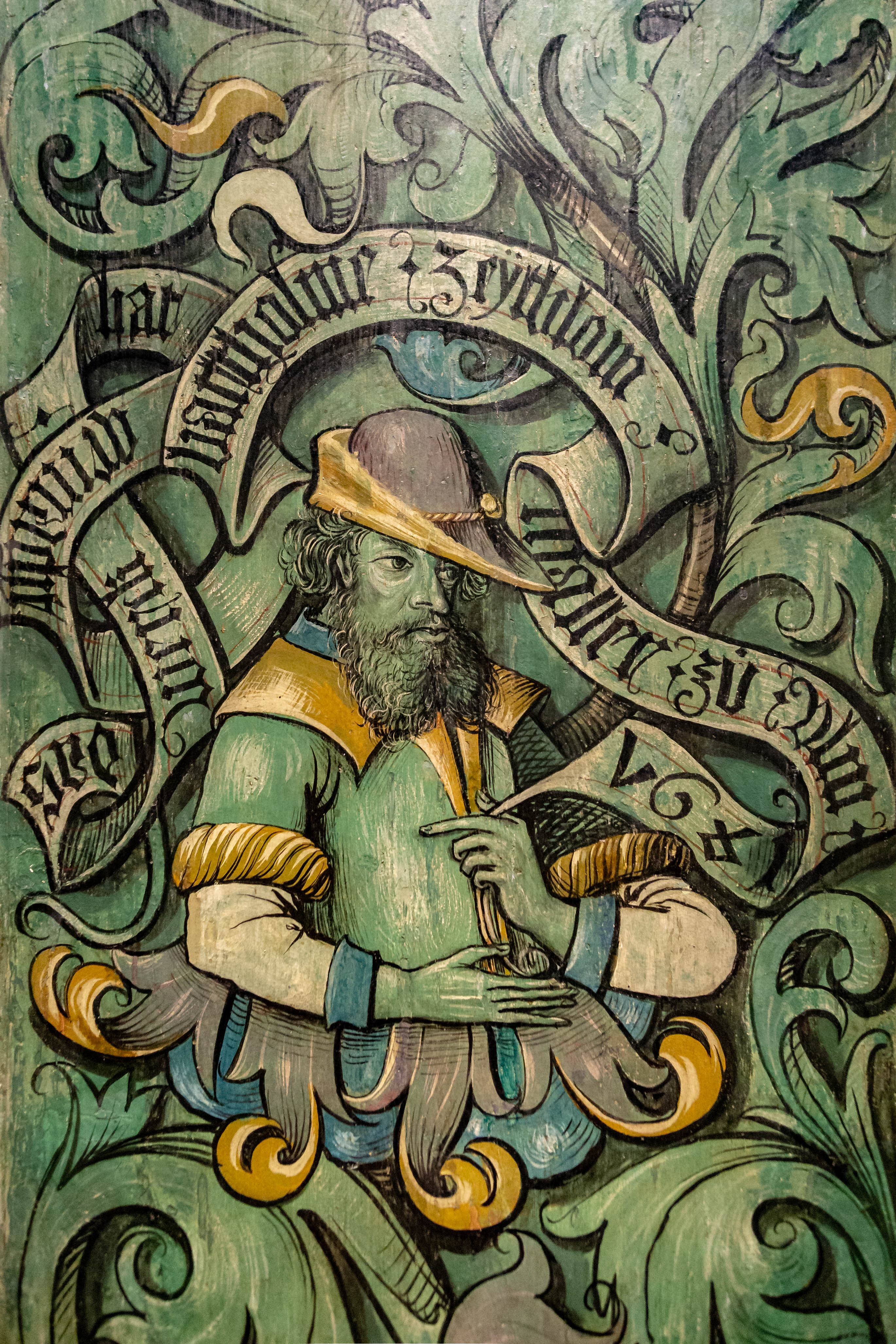 Heerberg Altar - Self-portrait in Tendrils (Reverse of the shrine, central panel)